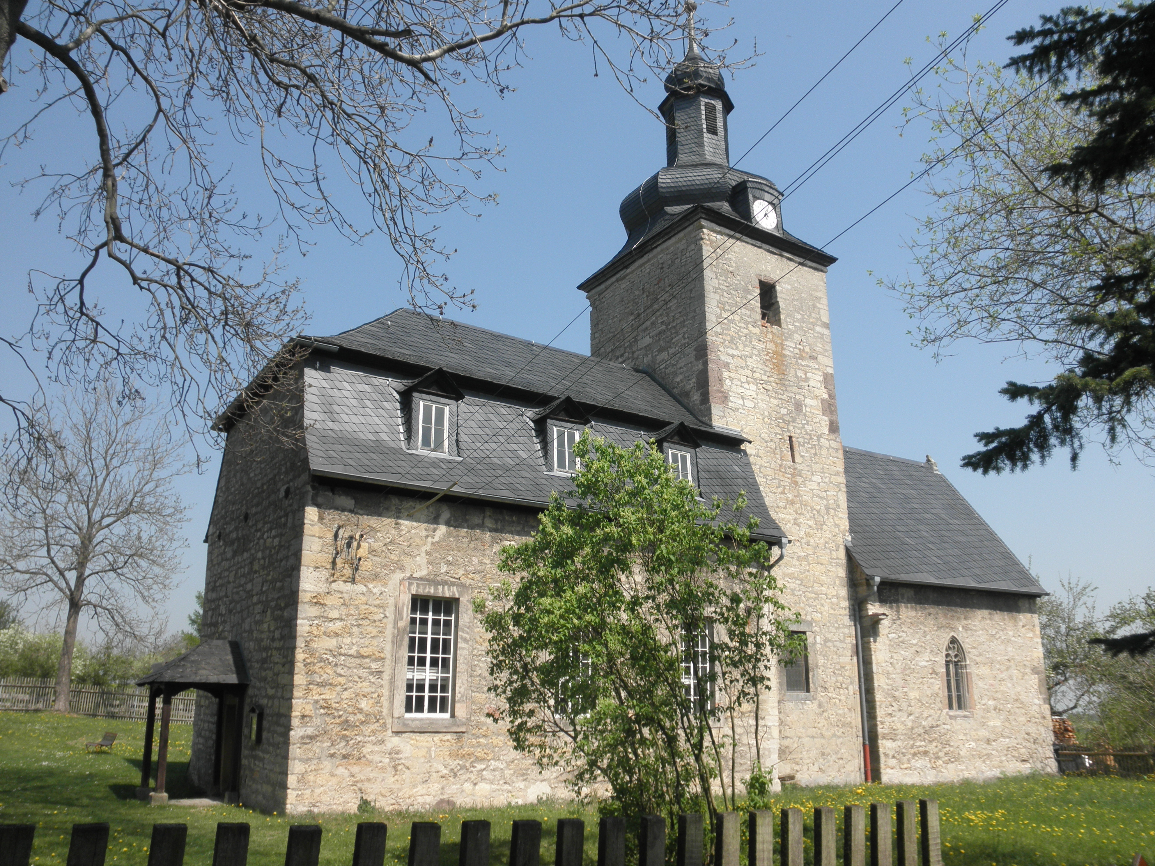 Church in Haufeld in Thuringia